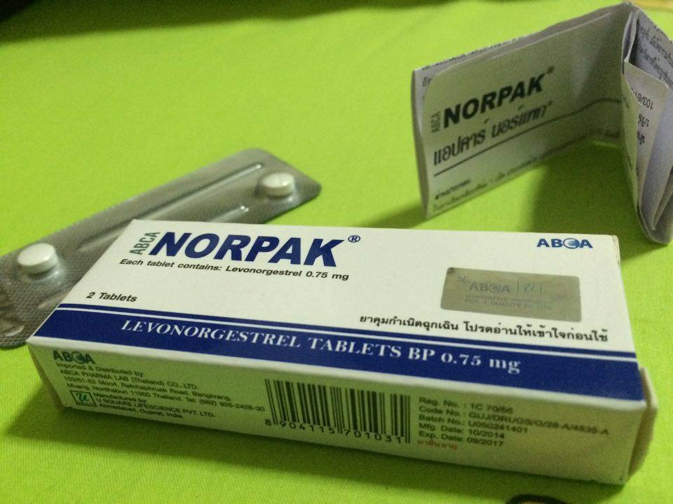 ส่วนประกอบใน 1 กล่องของกล่องยาคุม